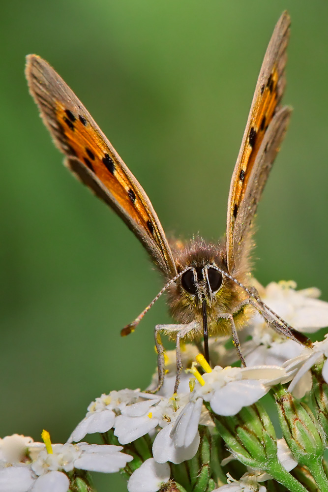 Lycaena phlaeas